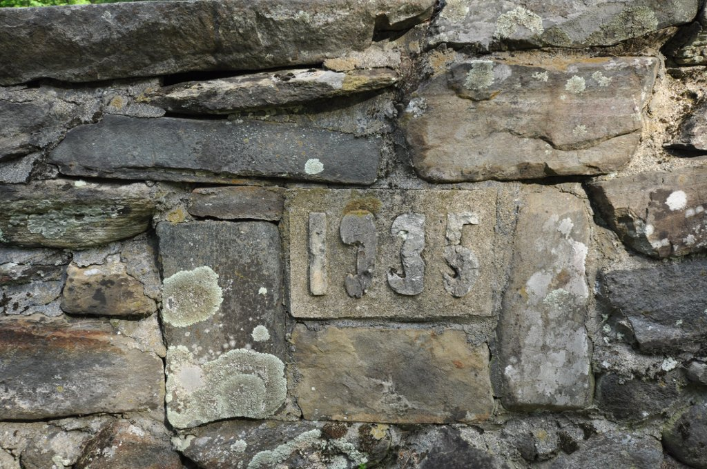 Dated stone embedded in the wall of the Gate Cemetery, Ireland Street, Chesterfield, Massachusetts